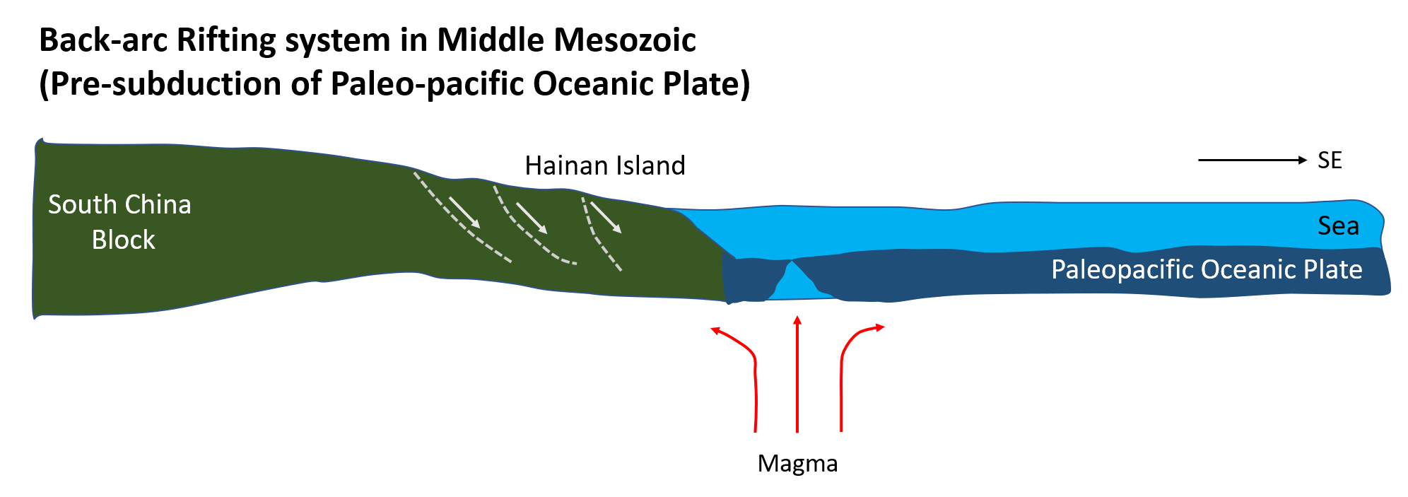 Mesozoic geological setting of Hainan Island